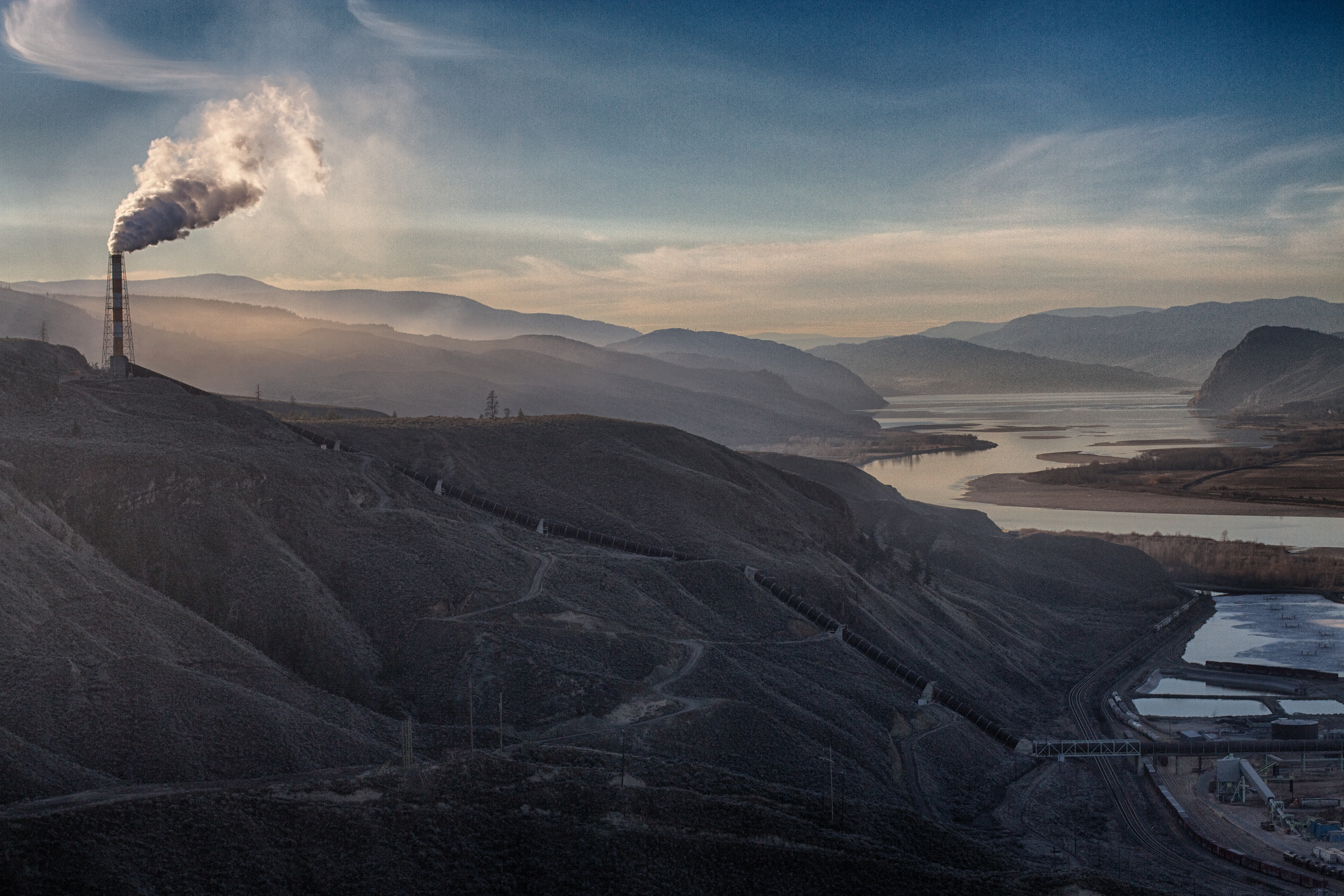 Welcome to the pre-Apocalypse